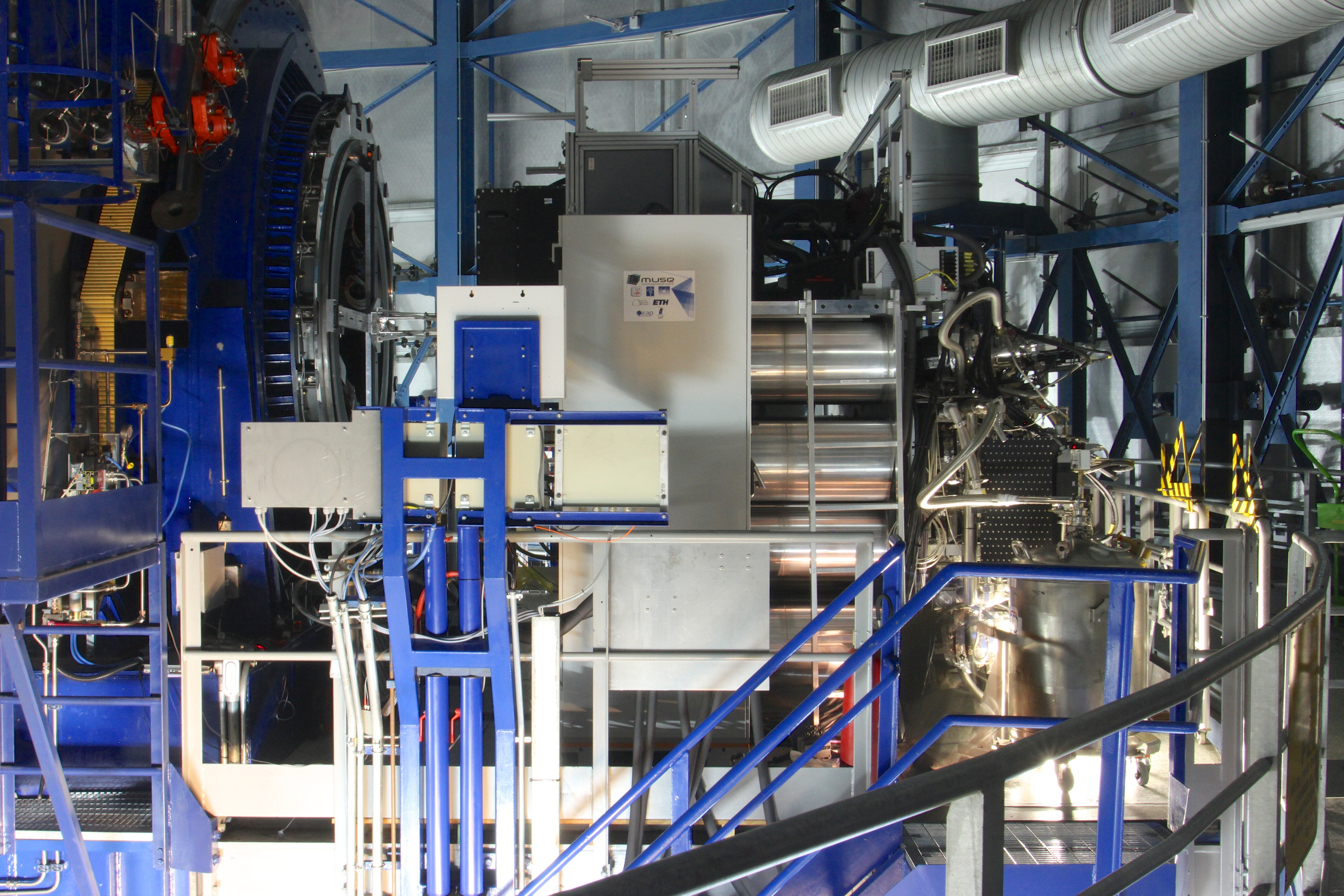 The MUSE instrument on VLT seen from the side.